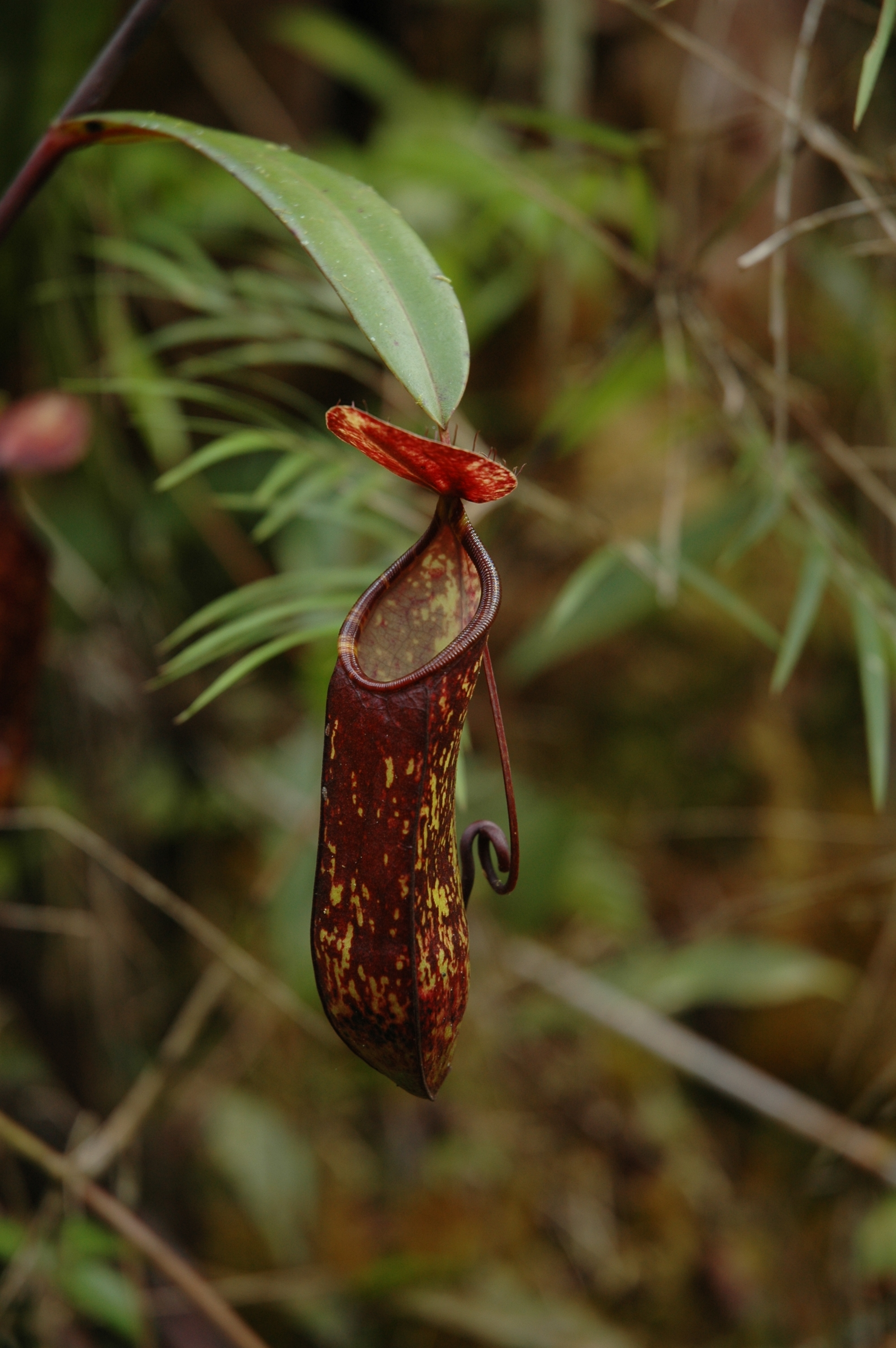 Nepenthes muluensis Gunung Murud by Jeremiah Harris